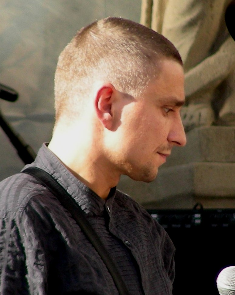 Janusz Radek - before concert "Niemen in our memory", Opole 21.09.2007